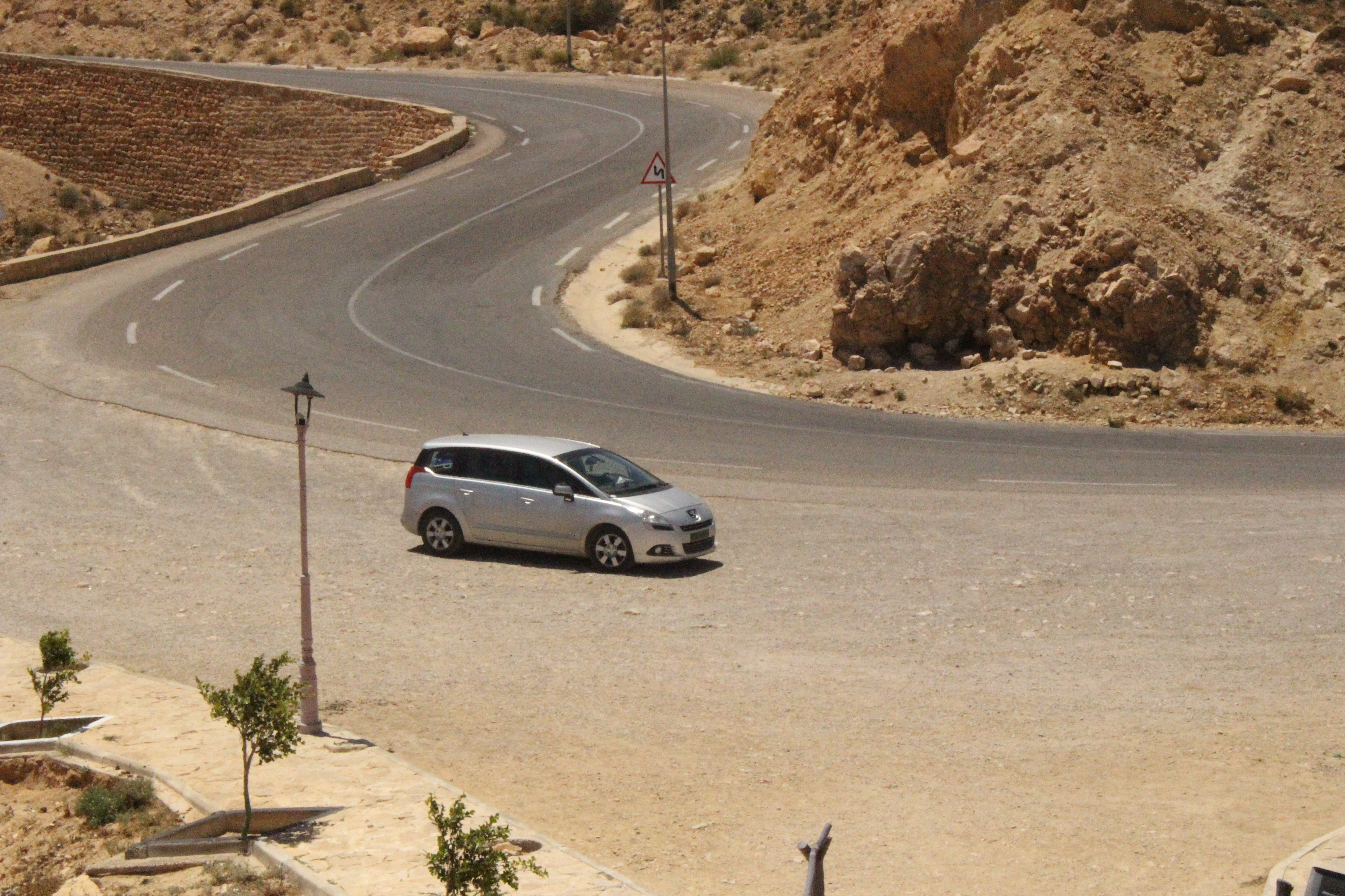 Road Matmata Tunisia This is an image with the theme "Africa on the Move or Transport" from: Tunisia